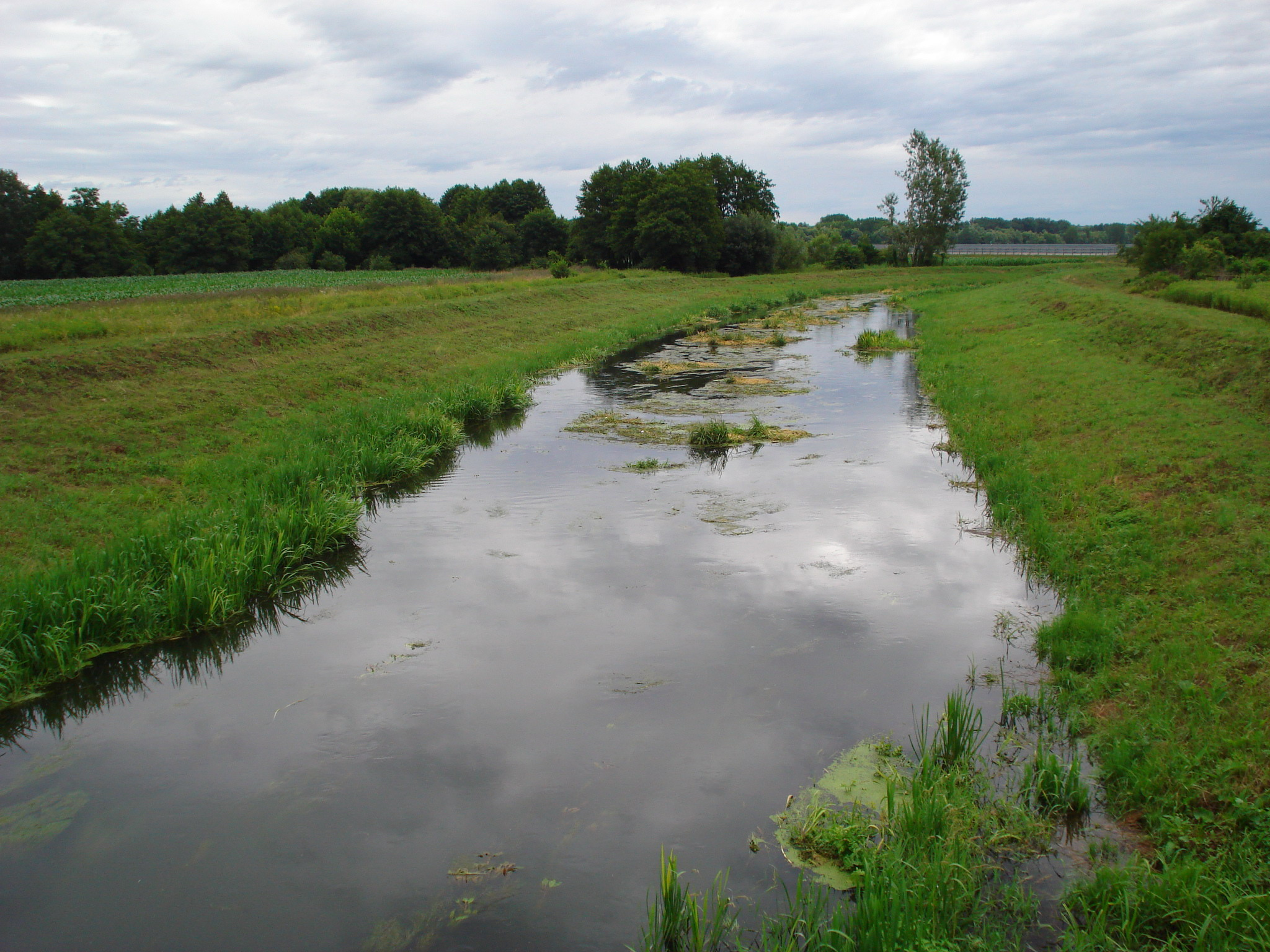 Trnava River, a right tributary to Mura, at Goričan (Medjimurje County, Croatia)